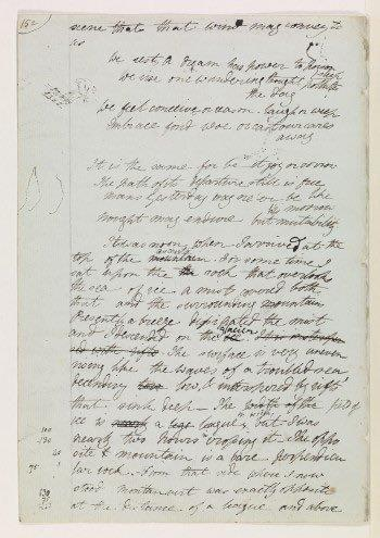 A draft of the novel Frankenstein showing Percy Bysshe Shelley's 1816 poem "Mutability" with his changes to the text in his handwriting.